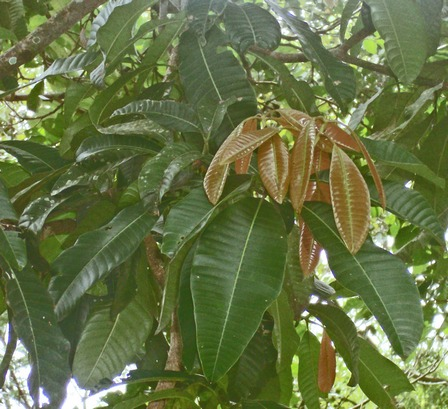 Mangifera foetida leaves, Situgede, Bogor, West Java, Indonesia